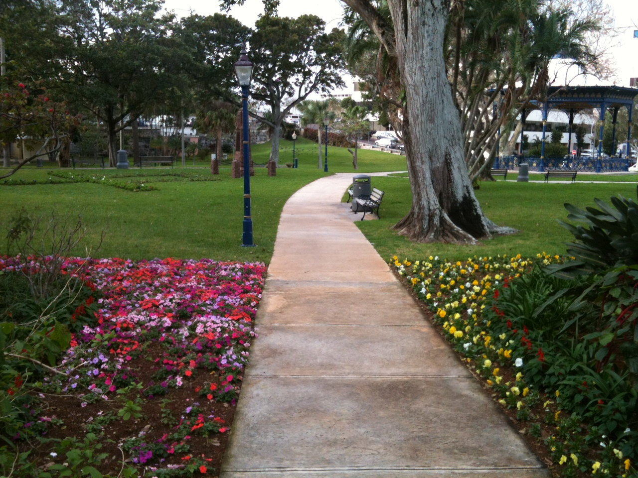 Located in Victoria Park - Hamilton, Bermuda - looking southwest with the bandstand in the right background.